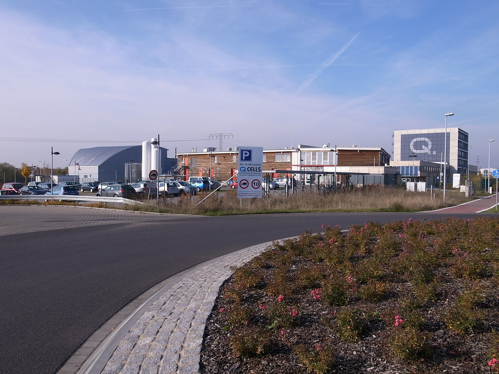 Hanwha Q CELLS Thalheim, Solar Valley